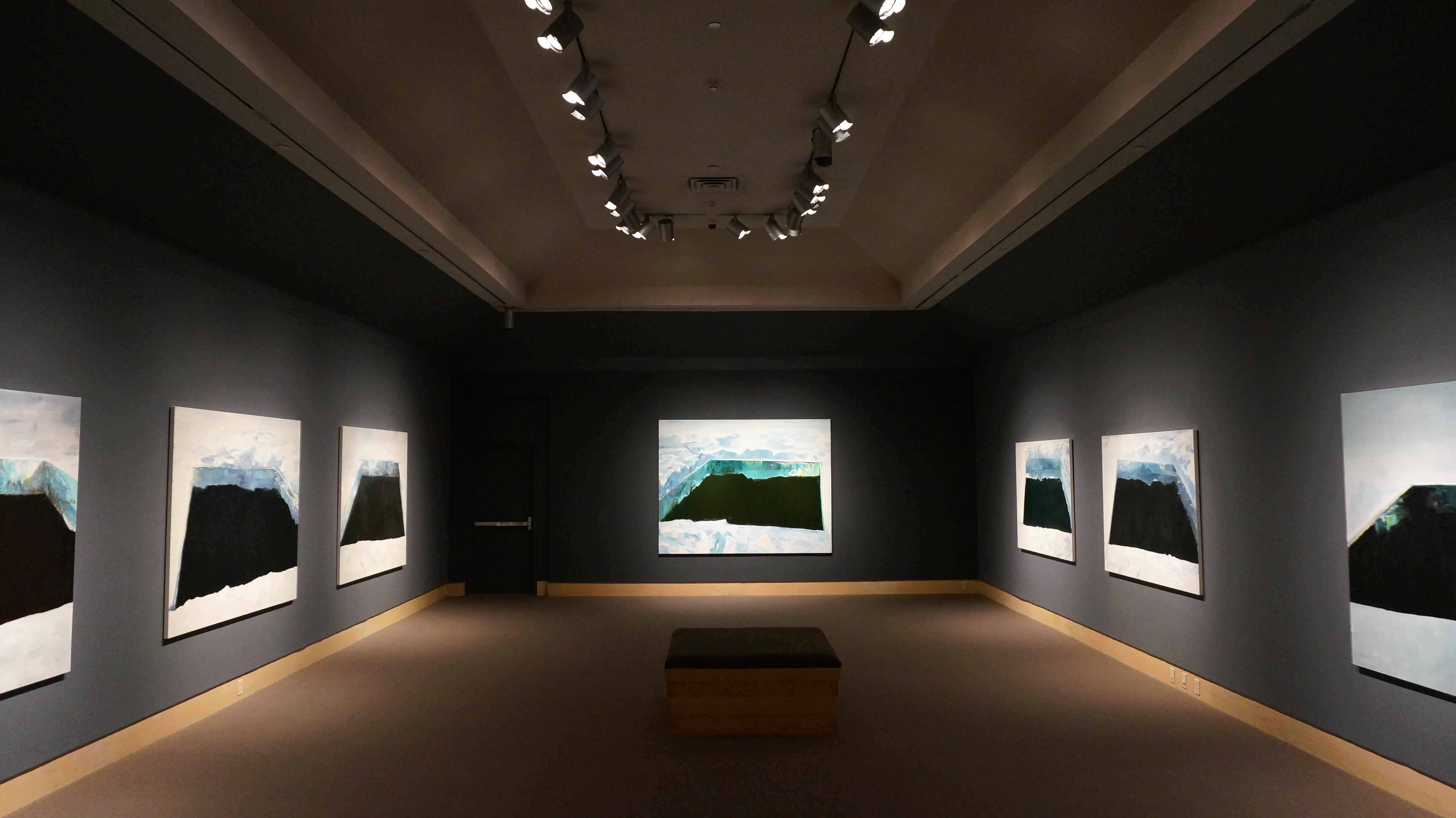 The exhibition "Eric Aho: Ice Cuts" was on view at the Hood Museum of Art January 9 through March 13, 2016. Vermont-based artist Eric Aho’s series of Ice Cuts paintings is inspired by the hole cut in the ice in front of a Finnish sauna, an aspect of Finnish culture that Aho’s family has maintained to this day. Intended for an icy immersion following the heat of the sauna, the avanto, as it is called in Finnish, underscores and personalizes the inherent contrasts in nature. Aho began the Ice Cuts series nine years ago, making one painting a year of the dark void produced by the act of sawing into the thick ice. This exhibition is the first to concentrate on the Ice Cuts paintings he has created to date. The central abstract form in these compositions provides the structure for experimentation with paint texture, surface, and subtly nuanced color, lending these frozen scenes both an austere beauty and a particular vibrancy. This exhibition brings together the major paintings in the series to date and smaller, related works on paper to offer unique insight into the artistic process. This exhibition was organized by the Hood Museum of Art and generously supported by the Philip Fowler 1927 Memorial Fund and the Ray Winfield Smith 1918 Memorial Fund. Curated by Katherine W. Hart, Senior Curator of Collections and Barbara C. & Harvey P. Hood 1918 Curator of Academic Programming / Eric Aho